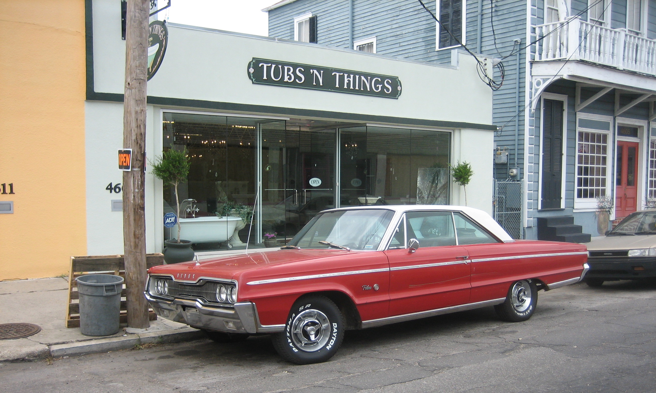 Dodge Polara from 1966 parked in front of shop on Magazine Street, Uptown New Orleans Photo by Infrogmation Cropped version just showing car: File:DodgePolaraMagazine34-crop.jpg